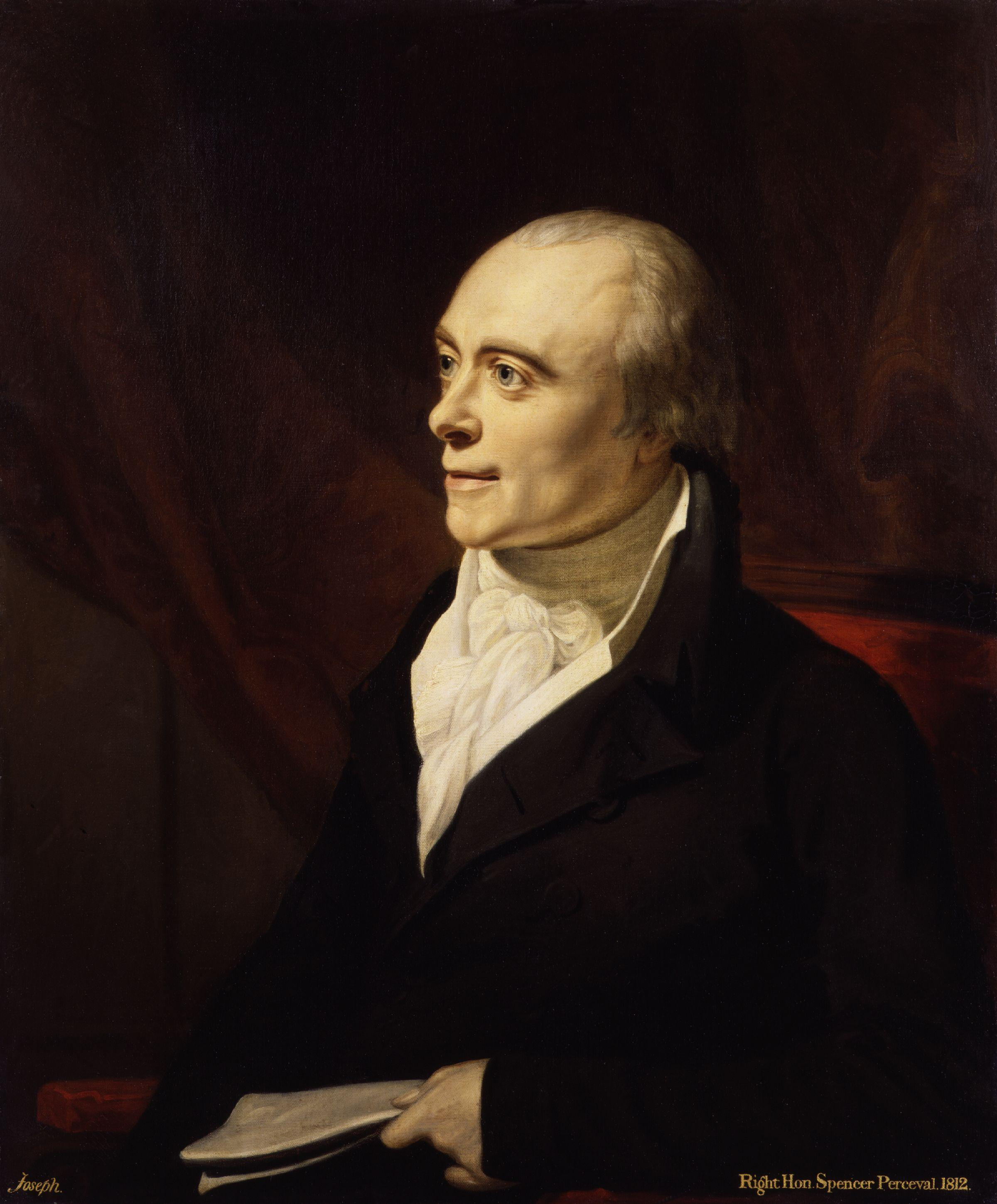 Spencer Perceval, by George Francis Joseph (died 1846), given to the National Portrait Gallery, London in 1857. All images in this batch have been confirmed as author died before 1939 according to the official death date listed by the NPG.